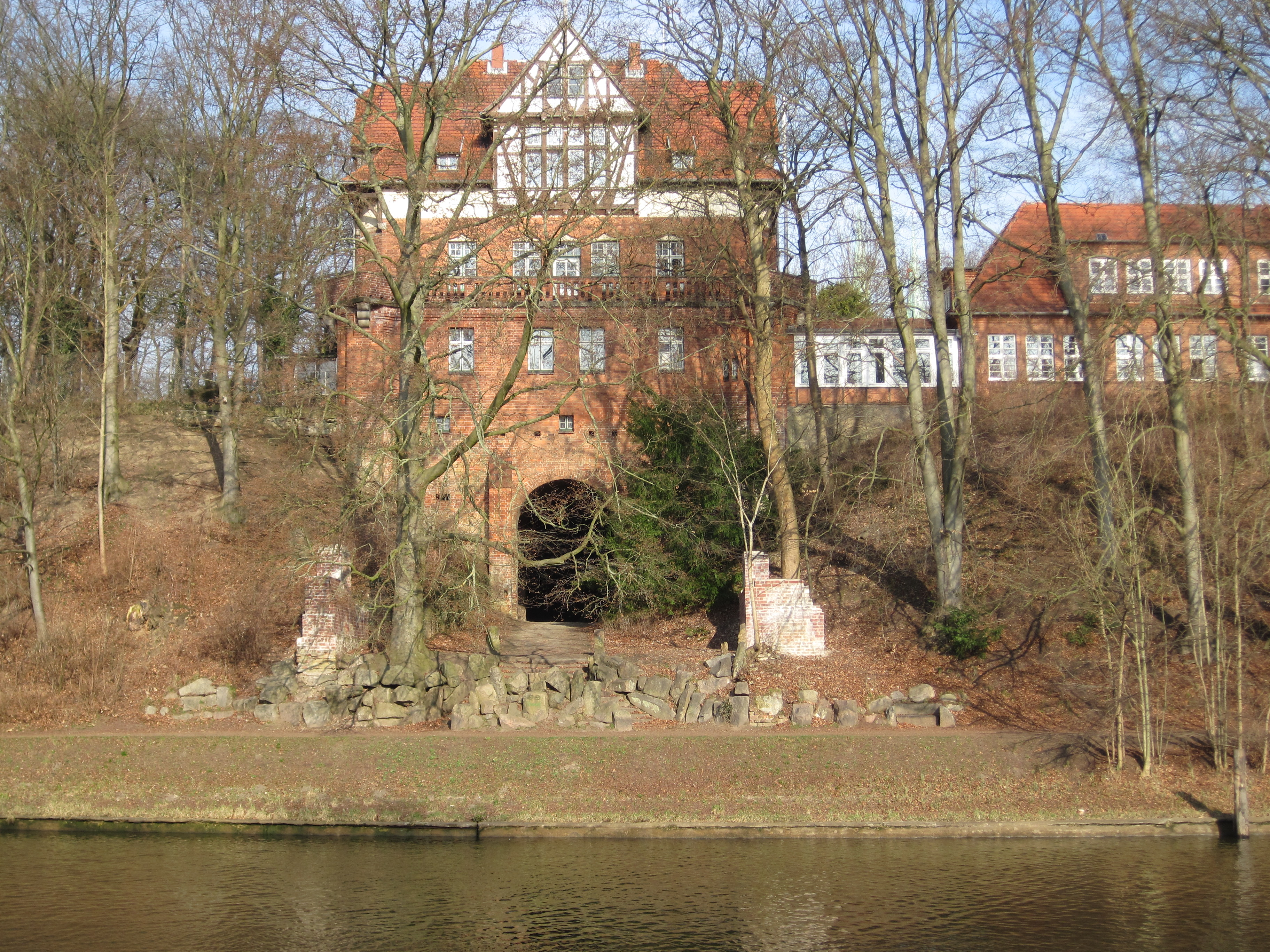 Kaisertor in Lübeck.